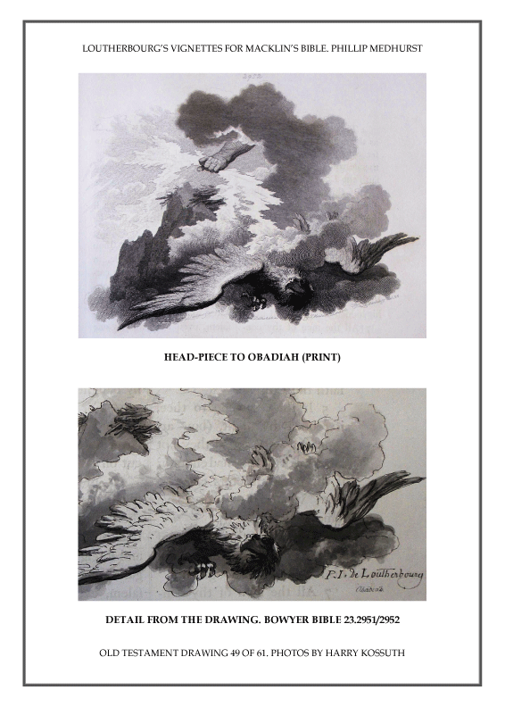 Head-piece to Obadiah. Obadiah 1:3-4. Vignette with an eagle flying, scared by the hand of god clutching a lightning bolt protruding through clouds at left; letterpress in two columns below and on verso. c.1790-1800. Inscriptions: Lettered below image with production detail: "J. Landseer fecit", "P J de Loutherbourg del RA" and publication line: "Published Sep by T Macklin London". Print made by John Landseer. Dimensions: Height: 485 millimetres (sheet); width: 390 millimetres (sheet).